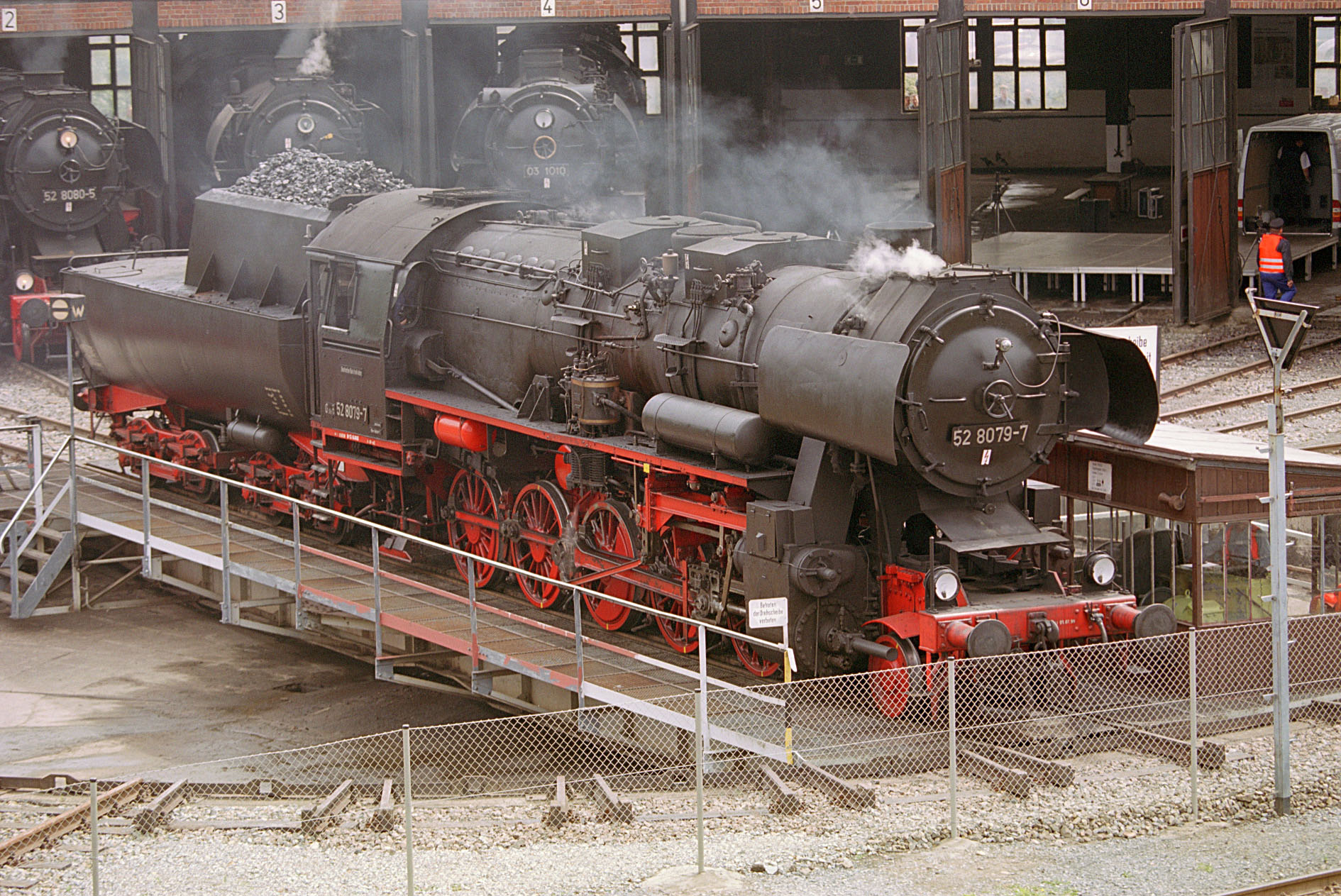 Rekolok DR 52 8080 at Bw Dresden-Altstadt.